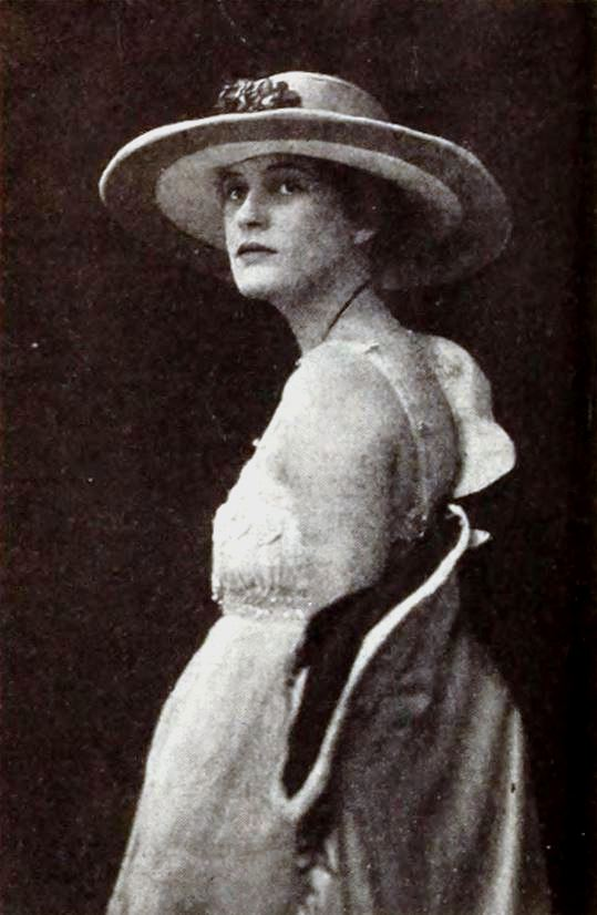 Still from the American film serial The Red Ace (1917) of Marie Walcamp, on page 36 of the September 29, 1917 Exhibitors Herald.